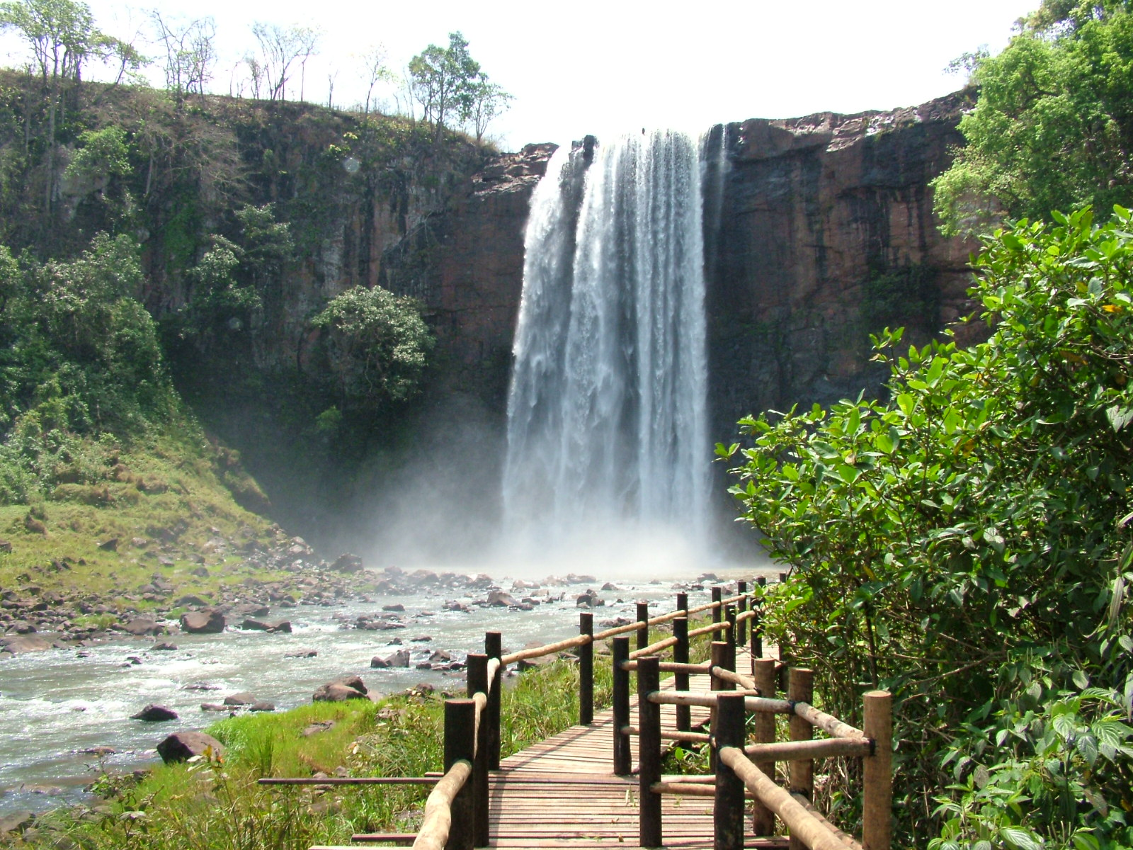 salto majestoso